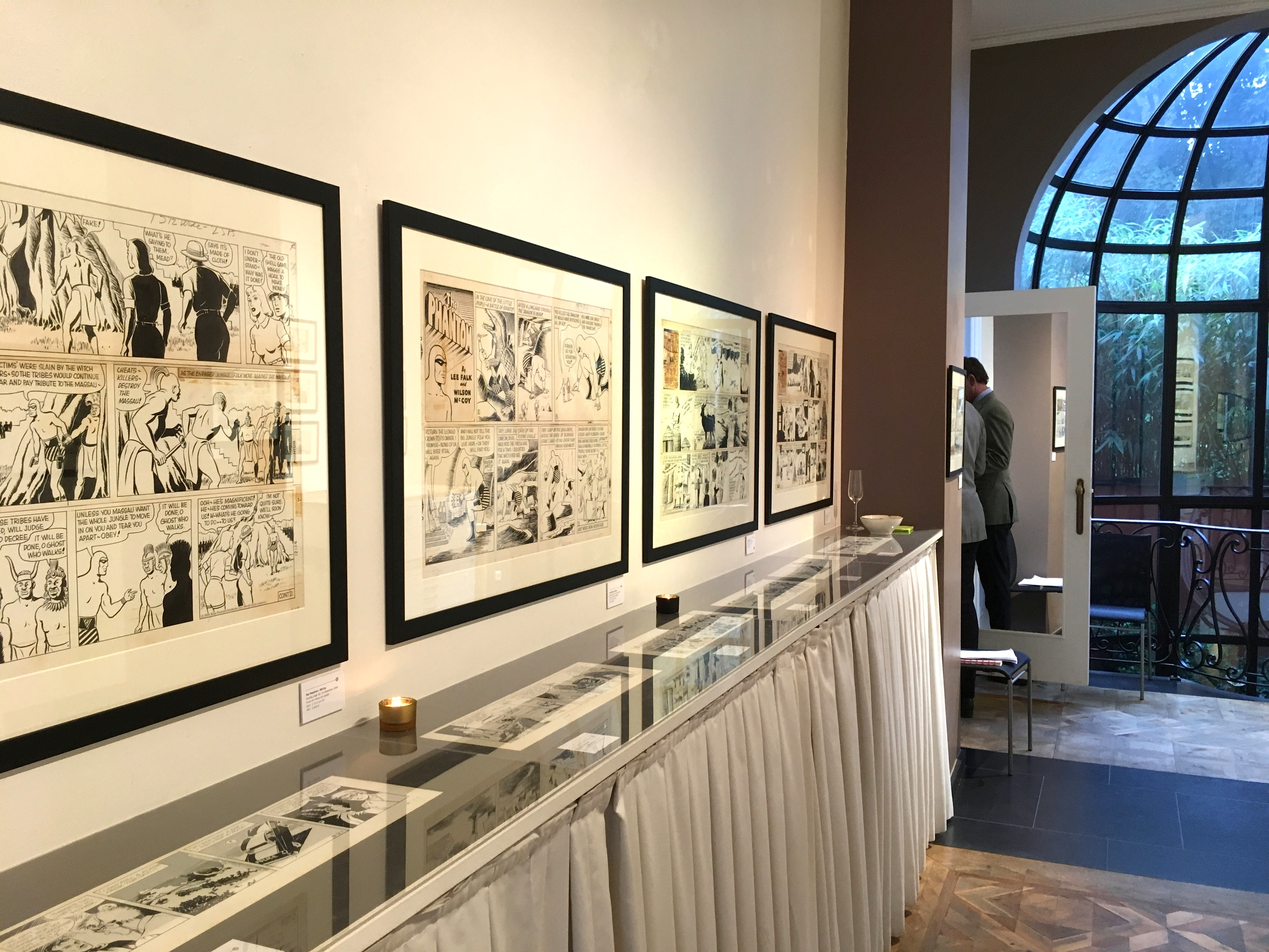 Wilson McCoy- Art exhibition at Gallery Champaka in Belgium. photo by ohm roy